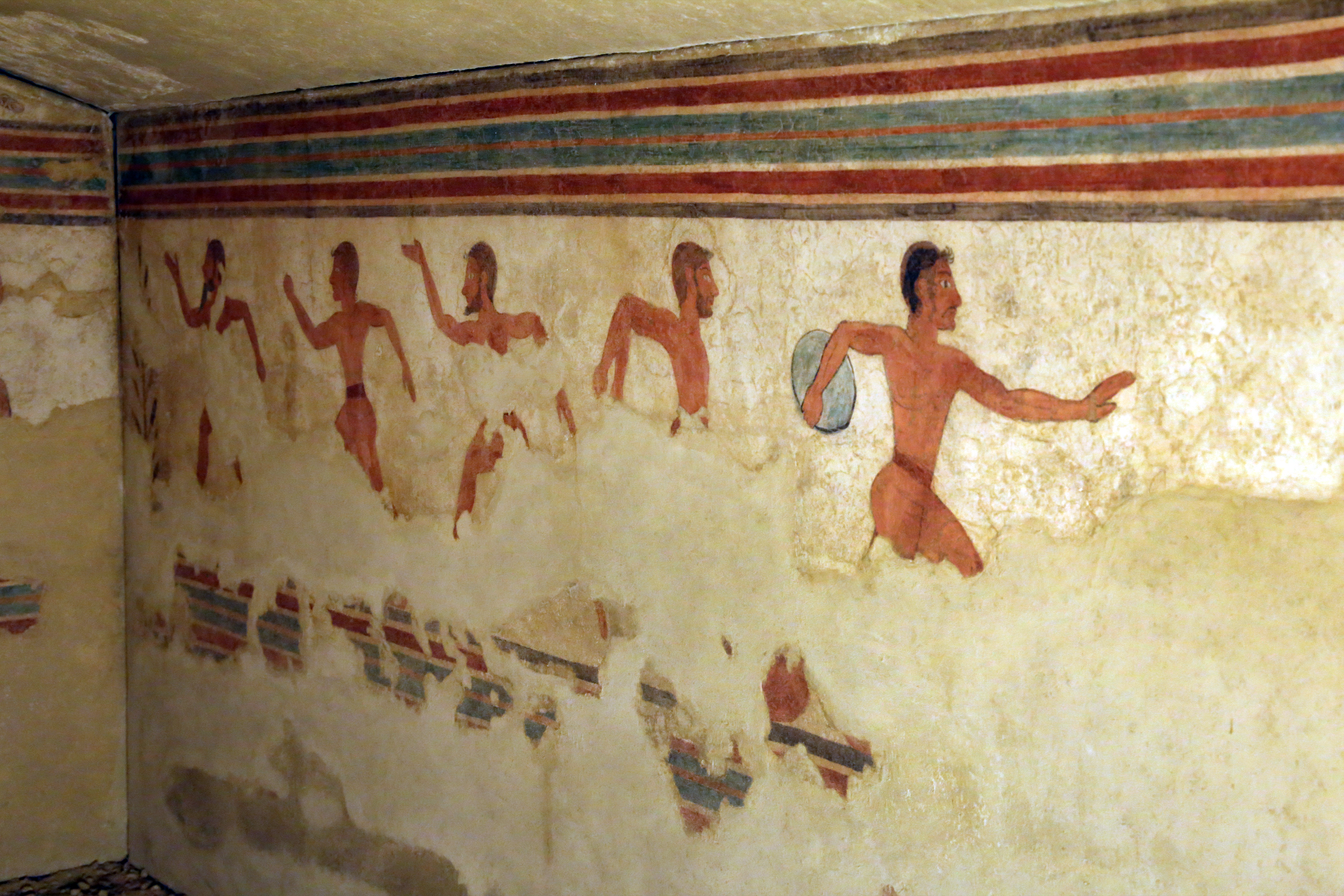 Etruscan antiquities the Museo archeologico nazionale (Tarquinia)